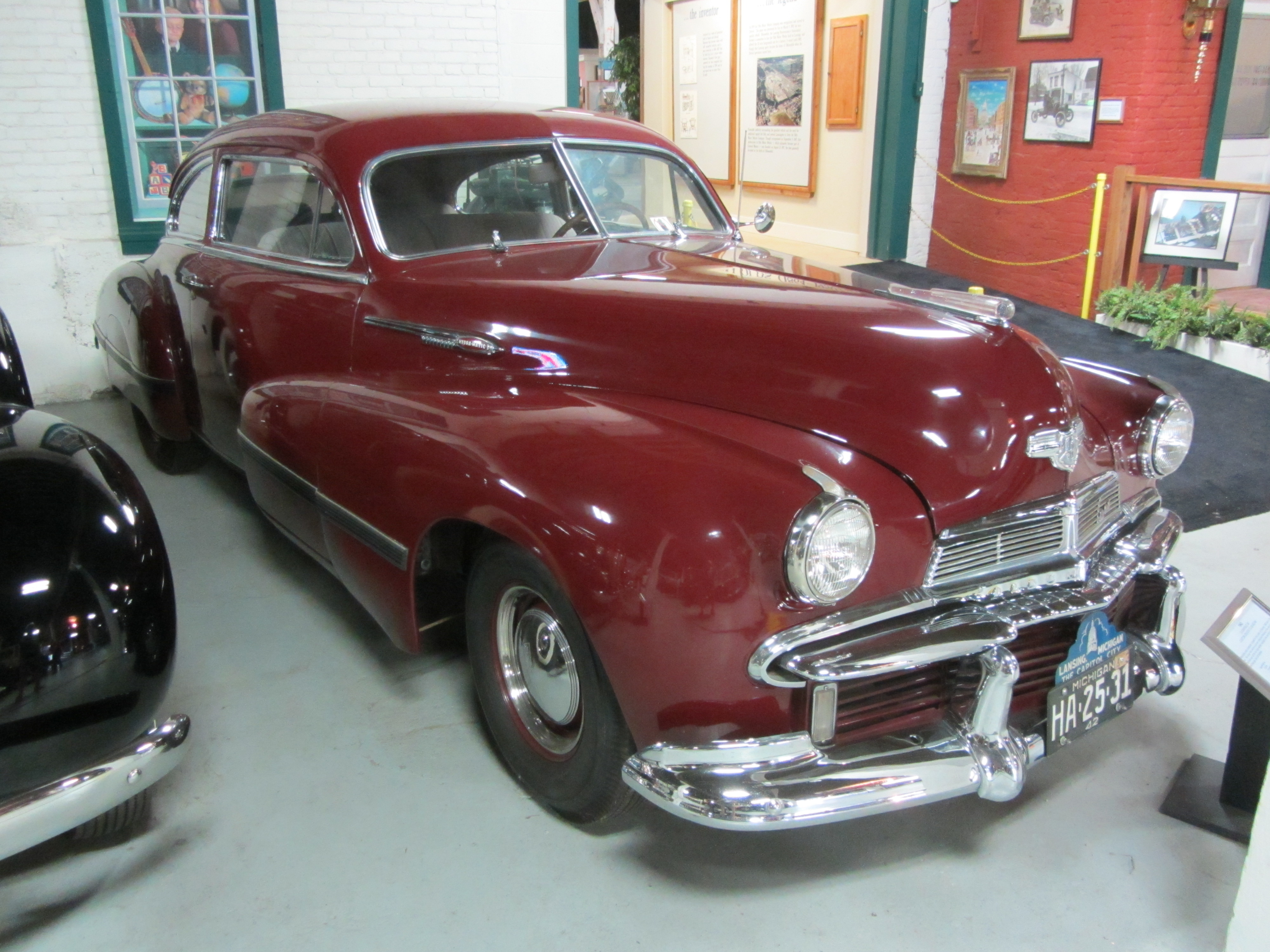 1942 Oldsmobile 98 Custom Cruiser Club Sedan at the R E Olds Transportation Museum in Lansing, Michigan.